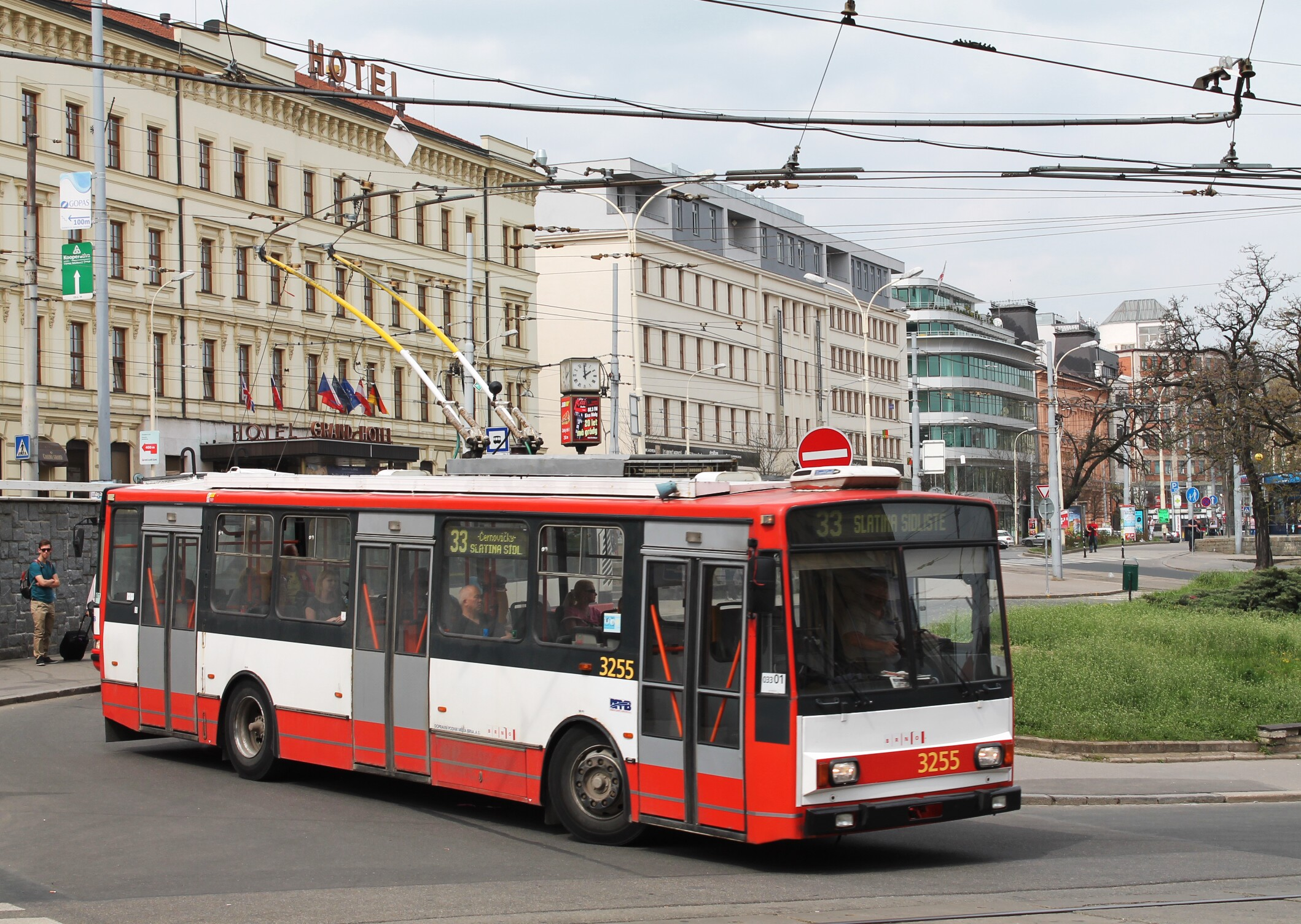 Škoda 14TrR trolleybus No. 3255, Brno, Czech Republic